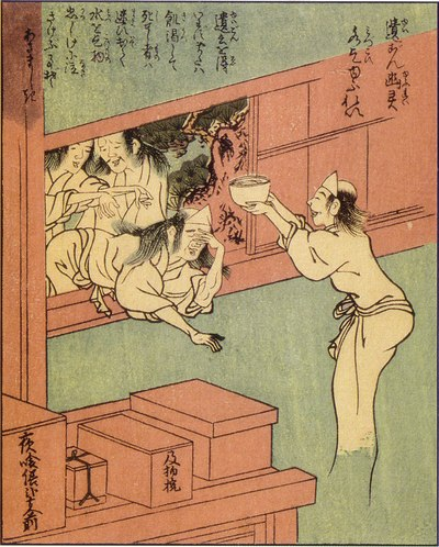 Yuigon-Yurei and Mizukoi-Yureii (遺言幽霊 水乞幽霊) from the Ehon Hyaku monogatari (絵本百物語)